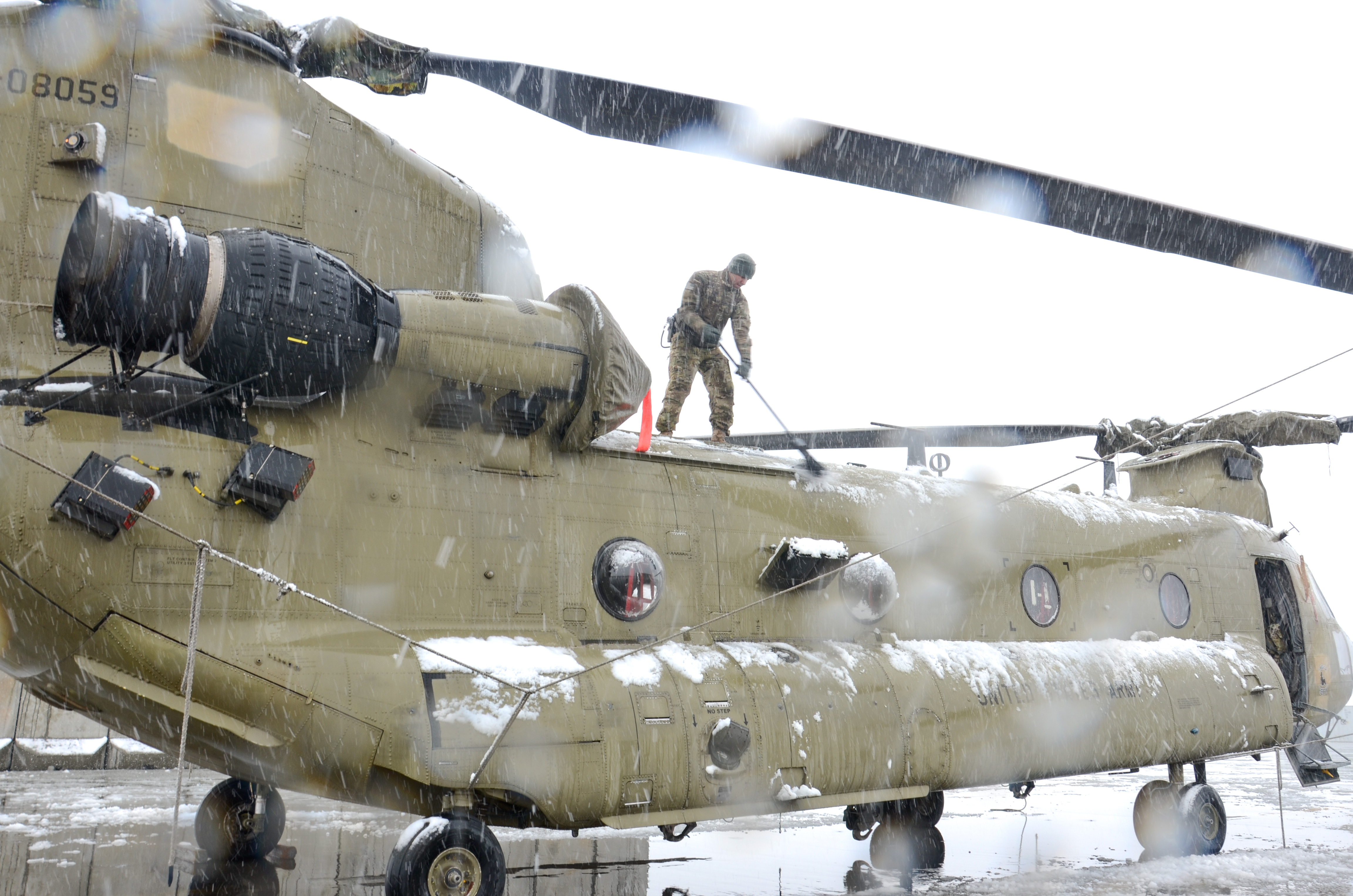 Soldiers with Task Force Wings, 159th Combat Aviation Brigade, 101st Airborne Division (Air Assault), clear snow from a CH-47 Chinook Helicopter at Bagram Air Field, Afghanistan, Feb. 6, 2013. Snow blanketed the airfield. Date Taken:02.06.2014 Date Posted:02.06.2014 08:09 Photo ID:1162386 VIRIN:140206-A-XD704-005 Resolution:4609x3052 Size:5.66 MB Location:BAGRAM AIR FIELD, AF Read more